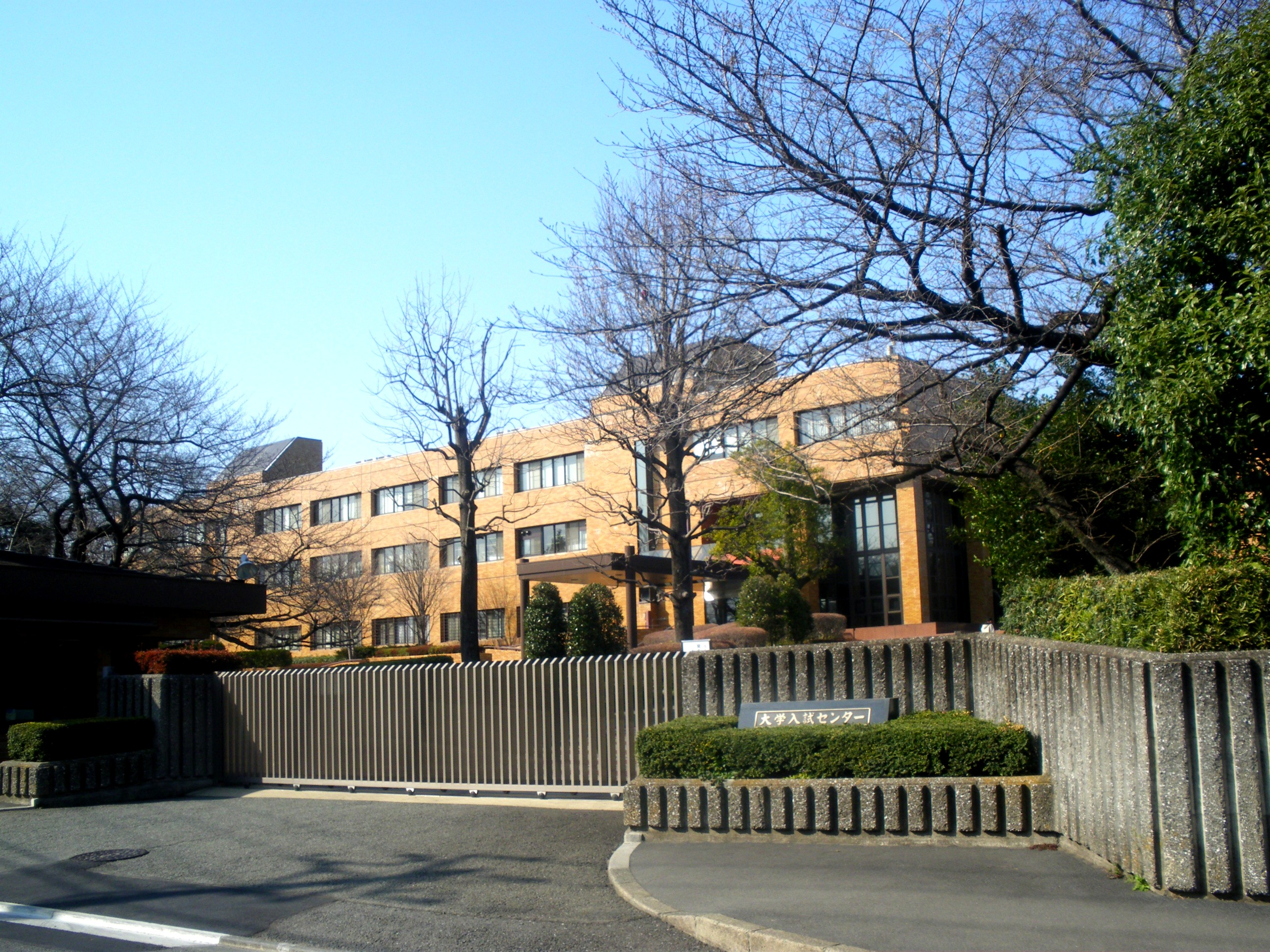 National Center For University Entrance Examinations(Komaba,Meguro,Tokyo)